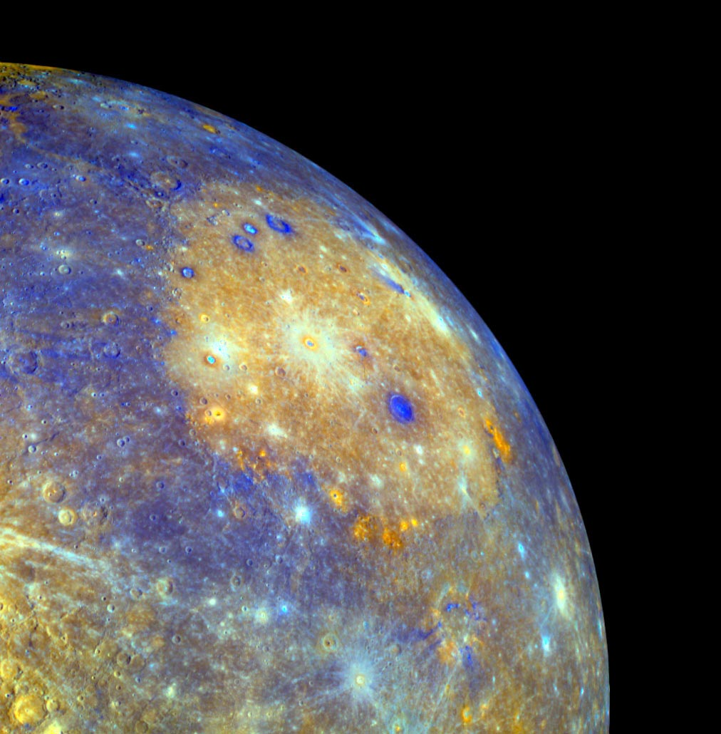 This false-color image of Mercury, recently published in Science magazine, shows the great Caloris impact basin, visible in this image as a large, circular, orange feature in the center of the picture. The contrast between the colors of the Caloris basin floor and those of the surrounding plains indicate that the composition of Mercury's surface is variable. Many additional geological features with intriguing color signatures can be identified in this image. For example, the bright orange spots just inside the rim of Caloris basin are thought to mark the location of volcanic features, such as the volcano shown in this previously released Narrow Angle Camera (NAC) image. MESSENGER Science Team members are studying these regional color variations in detail, to determine the different mineral compositions of Mercury's surface and to understand the geologic processes that have acted on it. Images taken through the 11 different WAC color filters were used to create this false-color image. The 11 different color images were compared and contrasted using statistical methods to isolate and enhance subtle color differences on Mercury's surface.